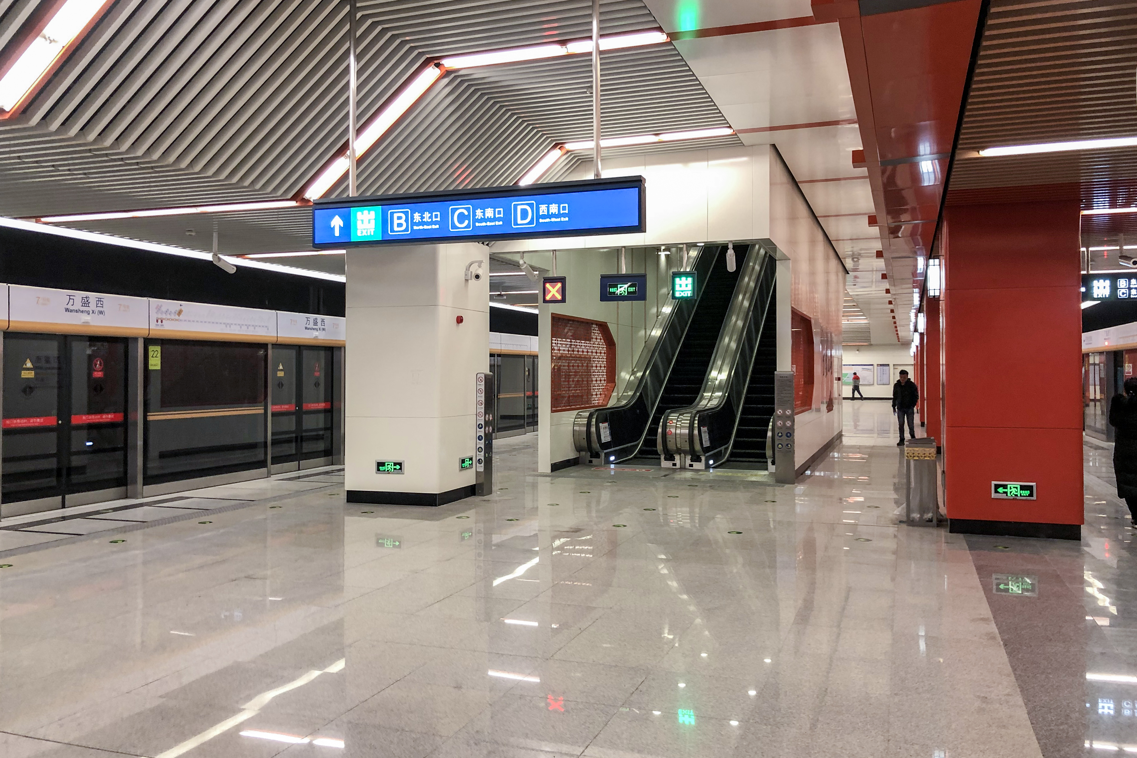 Man Shing West Station, completely out of CR Chengdu's reach.